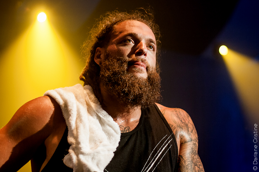 Benjah